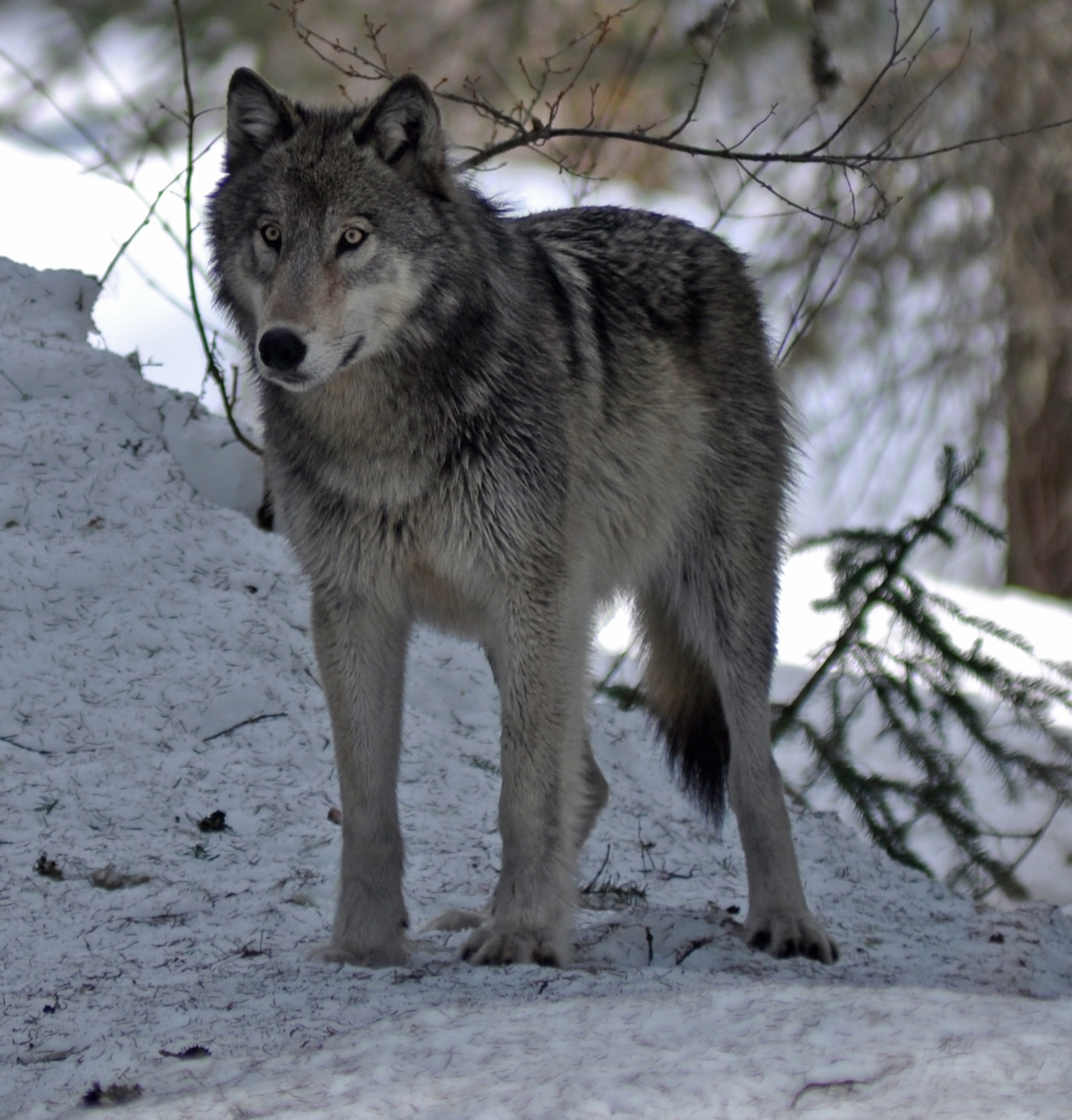 Wolf seen by the snow survey crew on the side of the Going-to-the-Sun Road